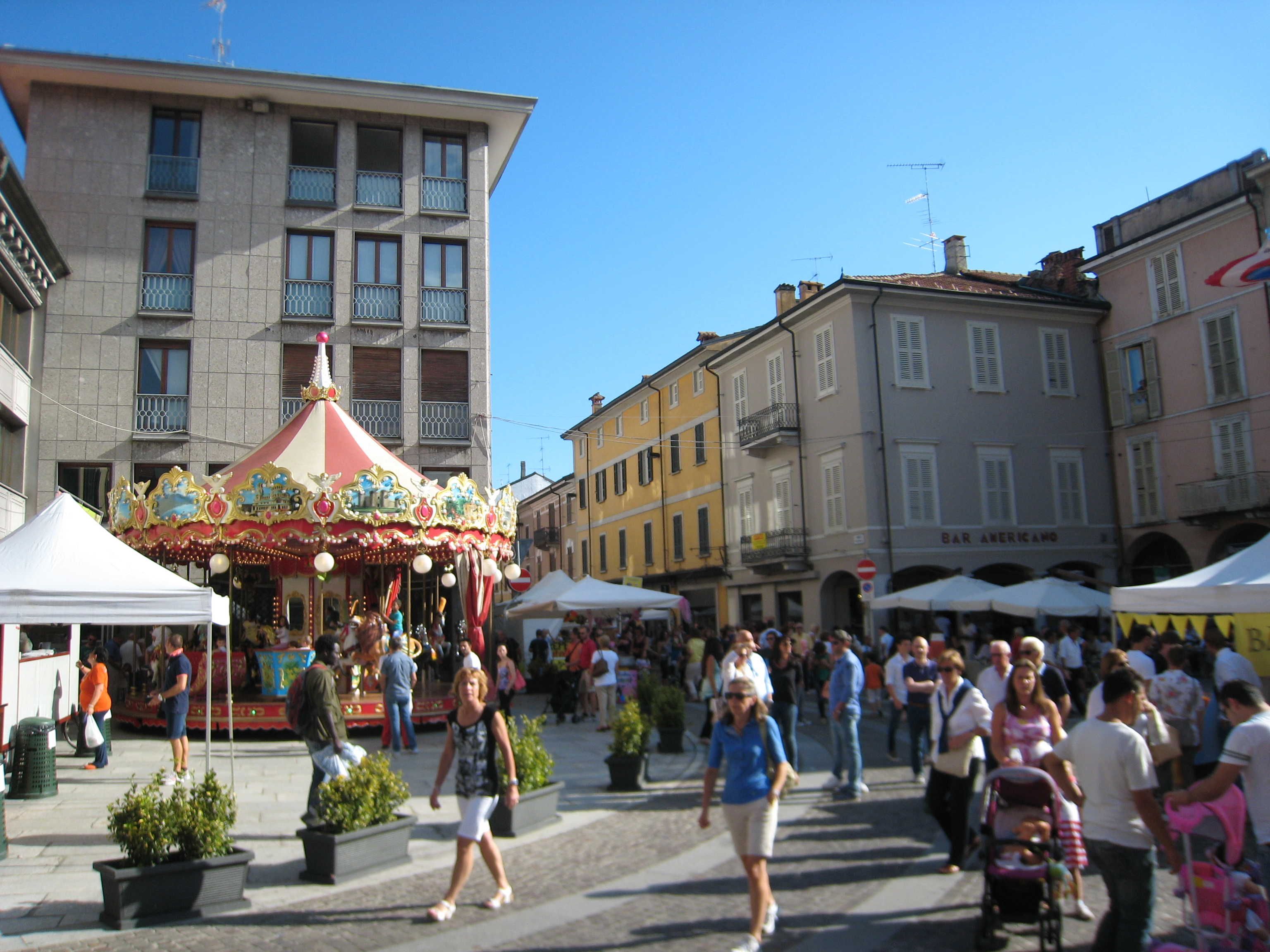 Square Martiri della Libertà